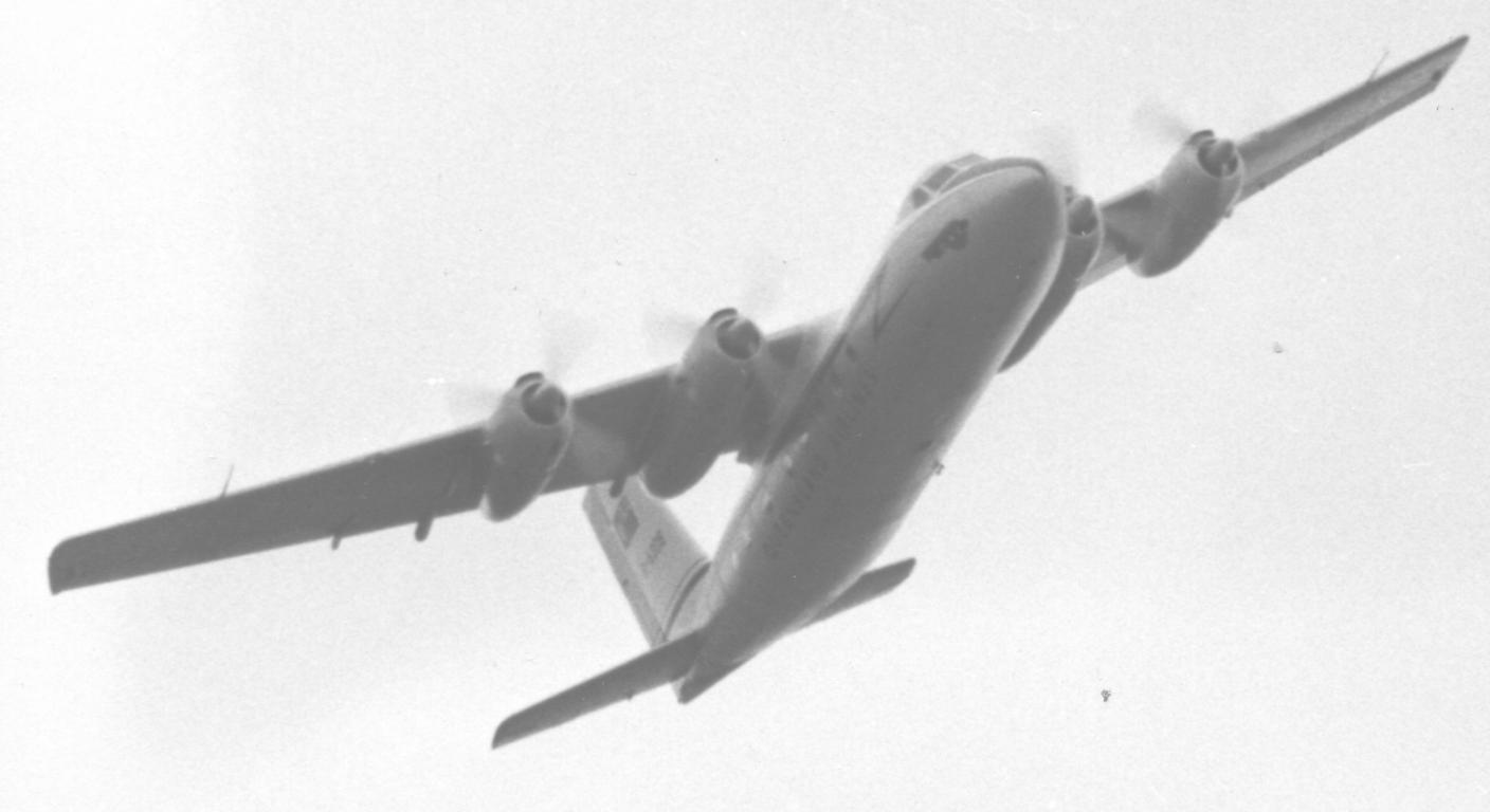 Handley Page HPR.3 Herald prototype G=AODE demonstrating at Farnborough SBAC Show in 'Queensland Airlines' markings